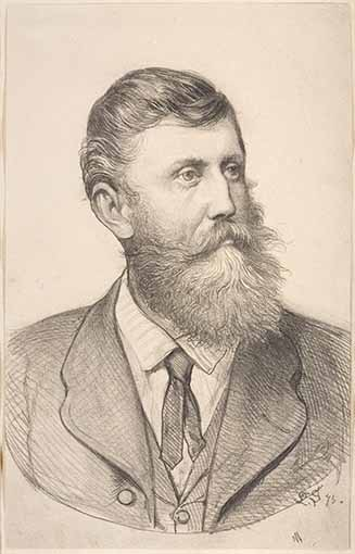 The German architect Albert Schmidt (1841-1913)